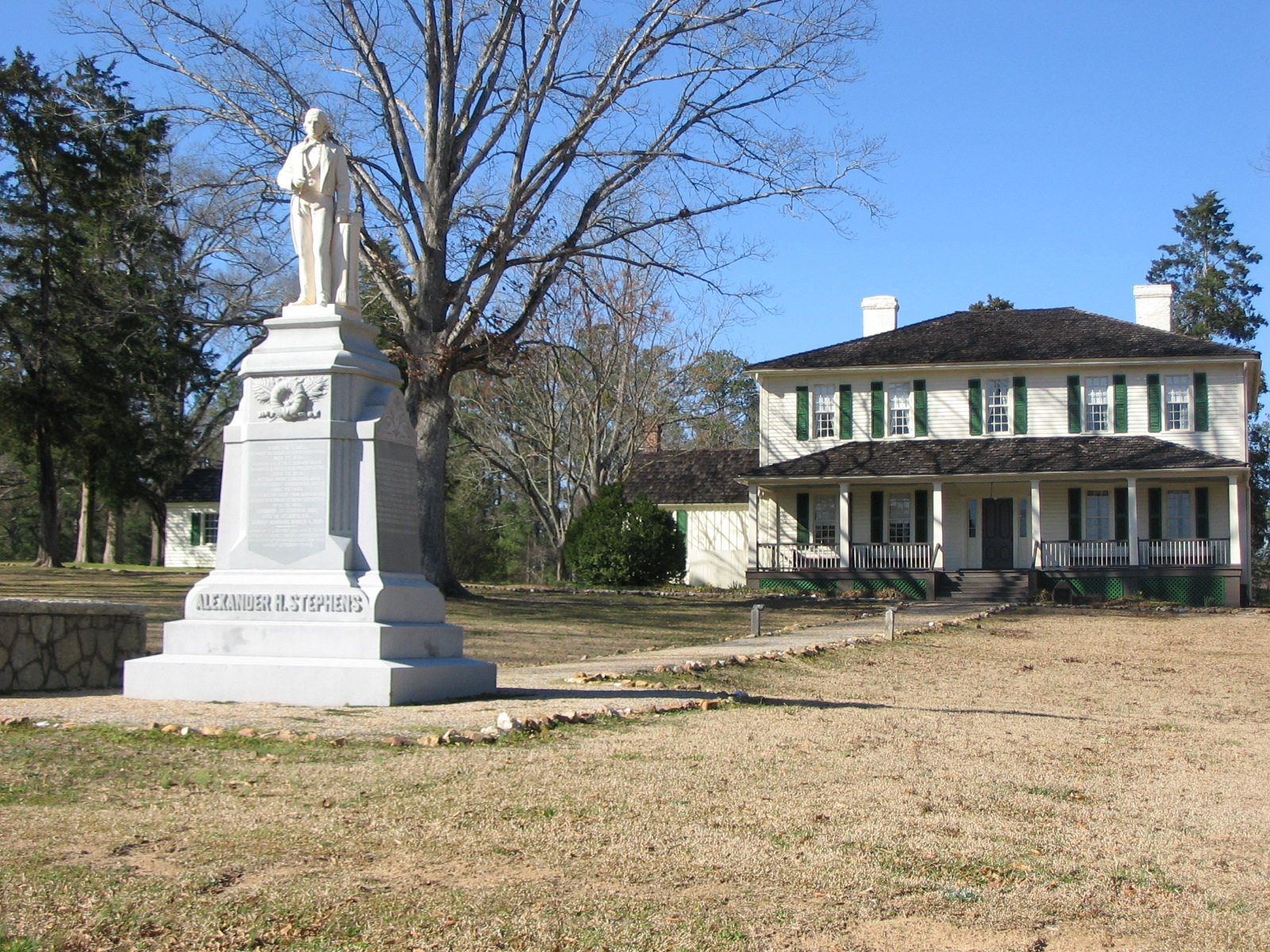 I took this picture at Liberty Hall in Crawfordville, Georgia.